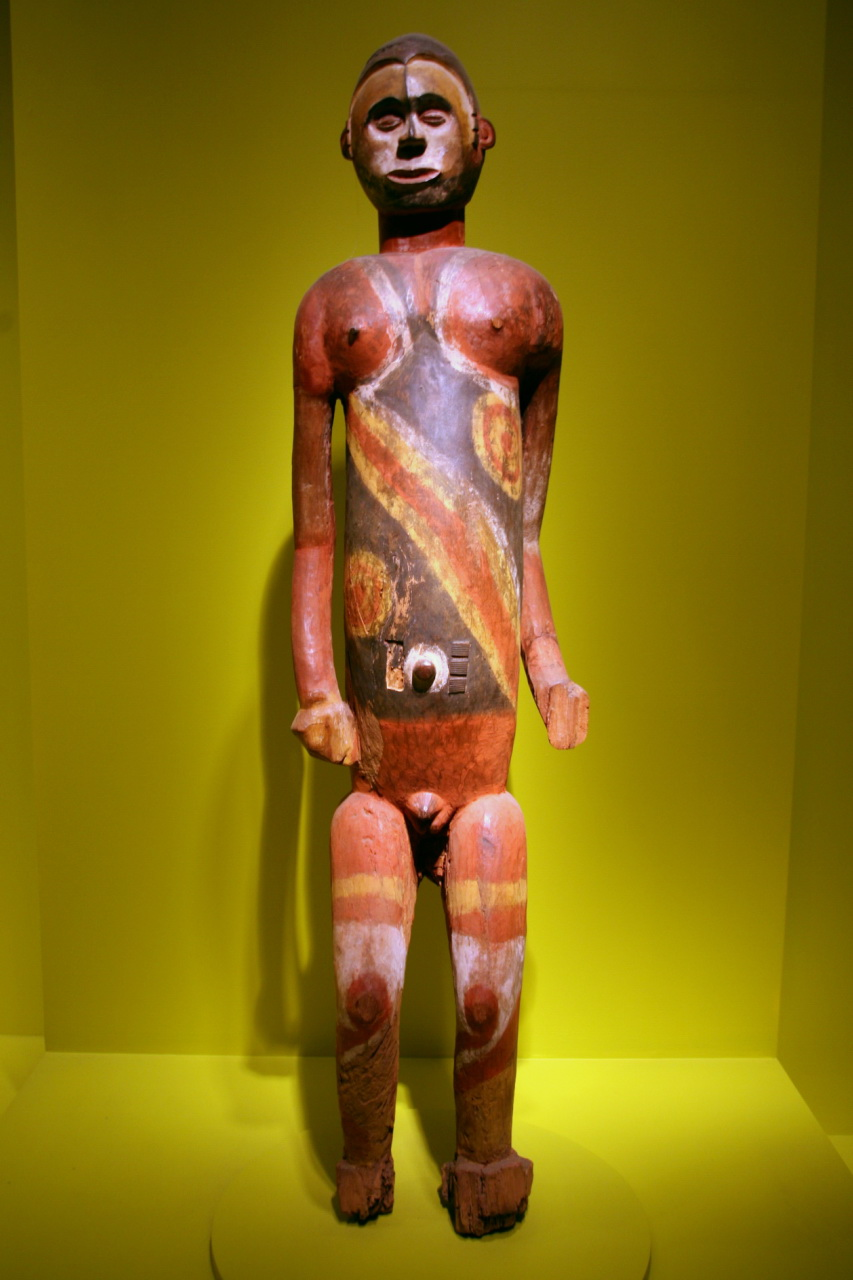 Male Figure, Igbo peoples, Amogdu Abiriba, Cross River region, Nigeria, Early to mid-20th century, Wood, pigment This figure probably represented a community's founding ancestor or a warrior and was one of a large number of monumental figures kept in the men's meetinghouse to guard the private areas from intrusion. It likely was part of a group that included the founding ancestor's wife and other members of the village, such as warriors and hunters. Besides its size, the most striking feature is the broad, bold use of color that reinforces the strength of the carving. Among the Igbo, such figures are sculpted by men and painted by women. This is one of only two published terracotta Oshugbo figures; others are copper alloy. (National Museum of African Art)